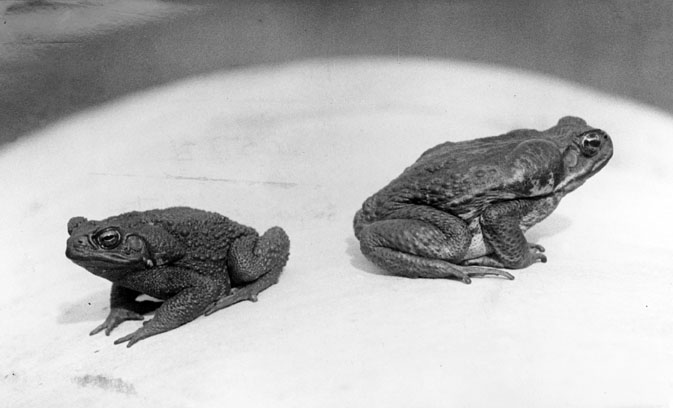 Cane toads at the Meringa Sugar Experiment Station, North Queensland. (The Australian Bureau of Sugar Experimental Stations imported approximately 100 toads from Hawaii to the Meringa Experimental Station near Cairns and more than 3000 were released in the sugar cane plantations of North Queensland in July 1935.)